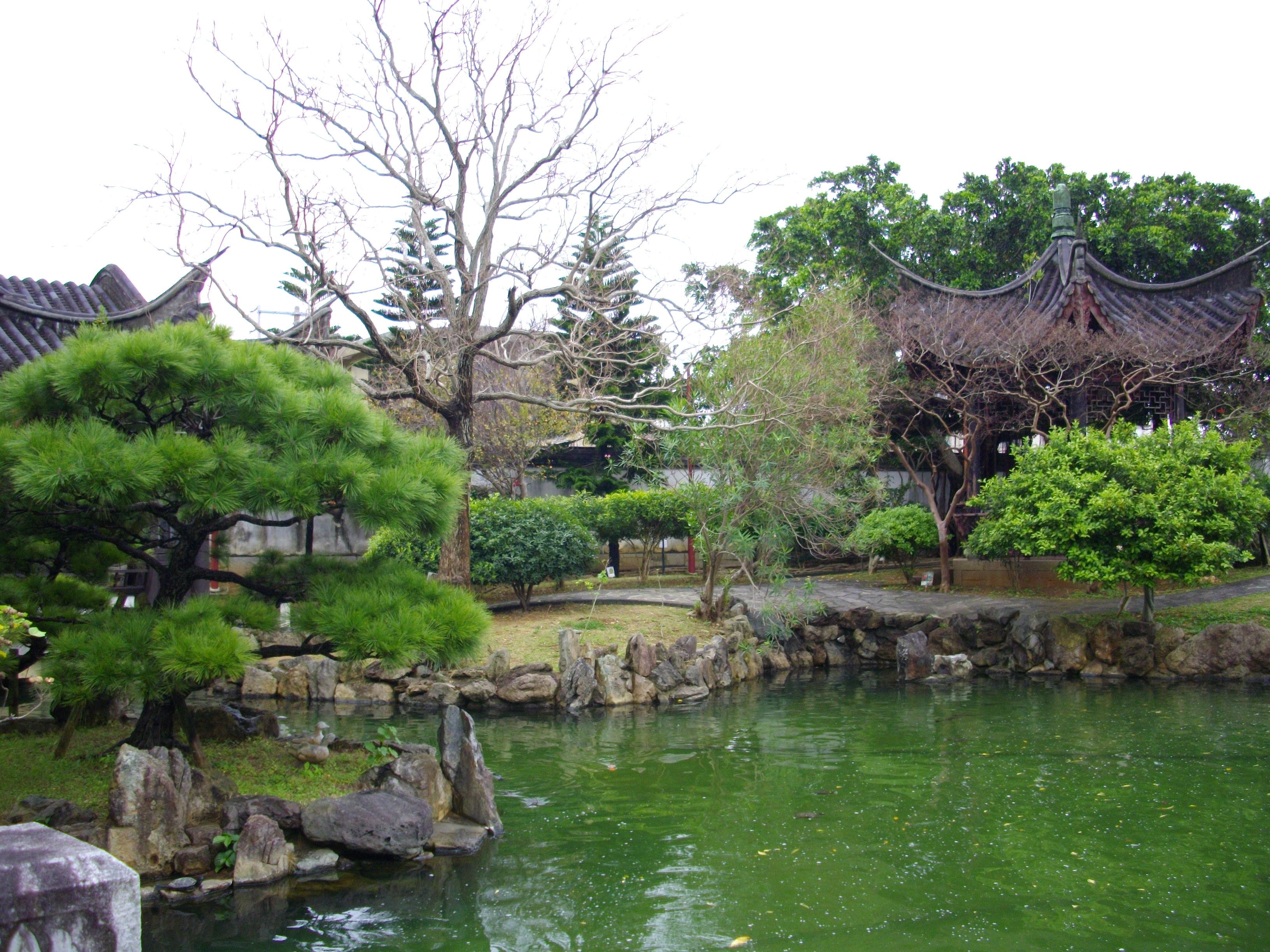 A view of the Fukushūen (福州園) in Naha, Okinawa.